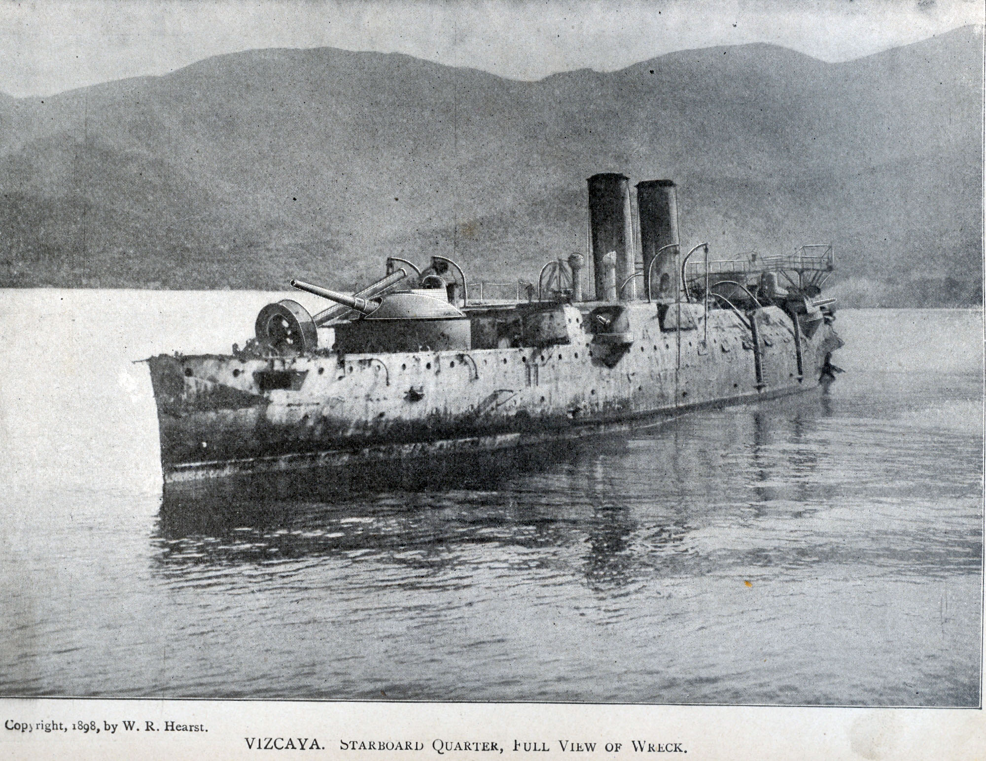 Spanish ship Vizcaya after defeat